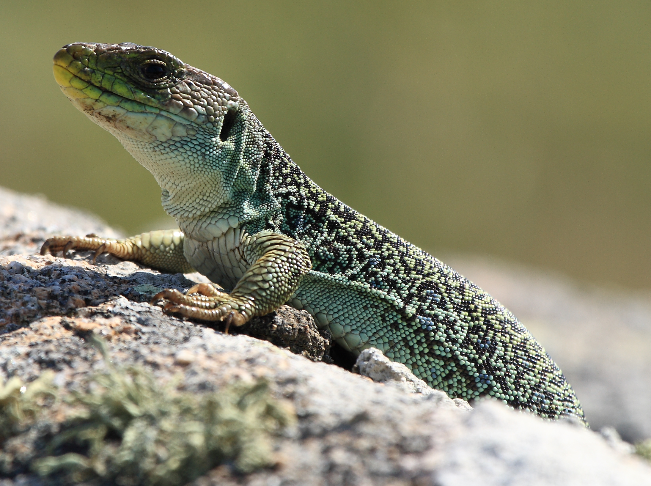 Ocellated Lizard Timon lepidus